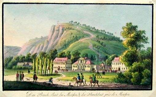 This image shows the mineral spa Buschbad near Meisen.